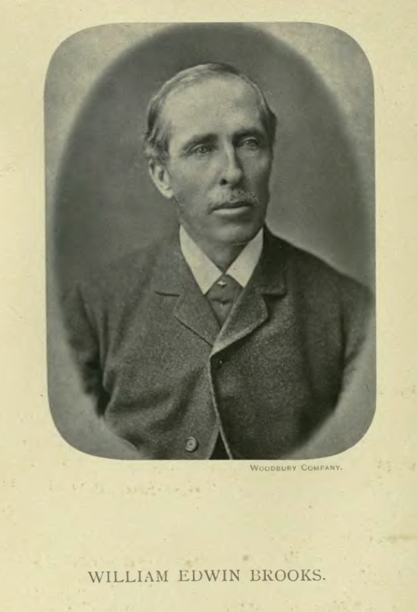 William Edwin Brooks